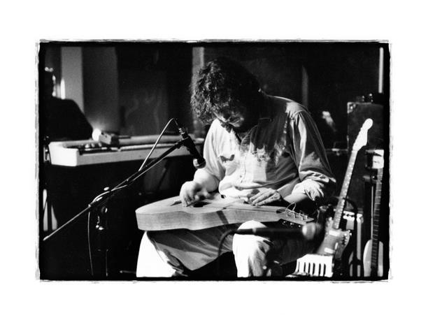 Jack Rose at the Buffalo Bar in London. 14th Feb 2006. Photo by Simon Fernandez.